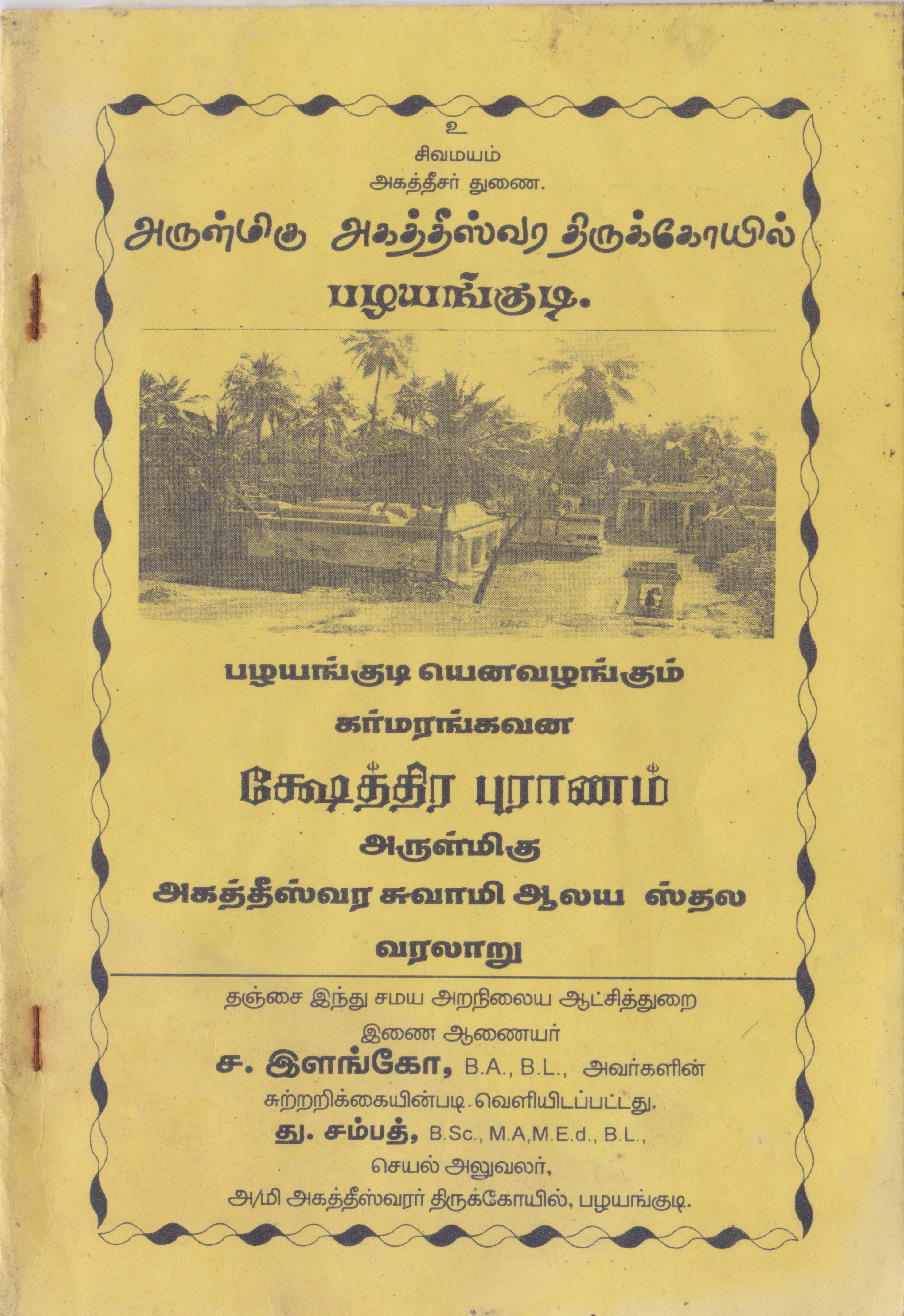 பழையங்குடி அகத்தீஸ்வர சுவாமி தள வரலாறு